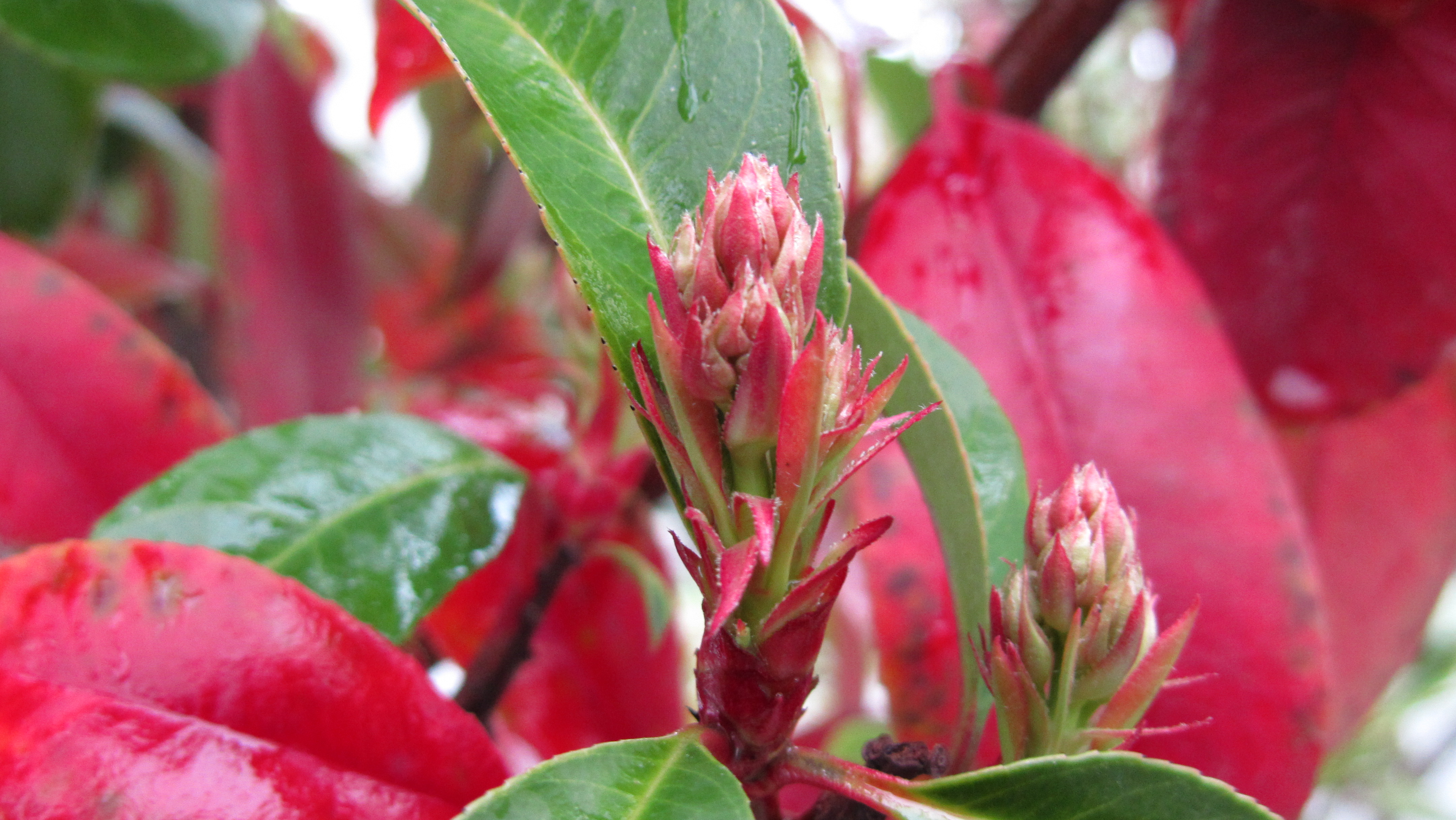 wet sprout-natural colors